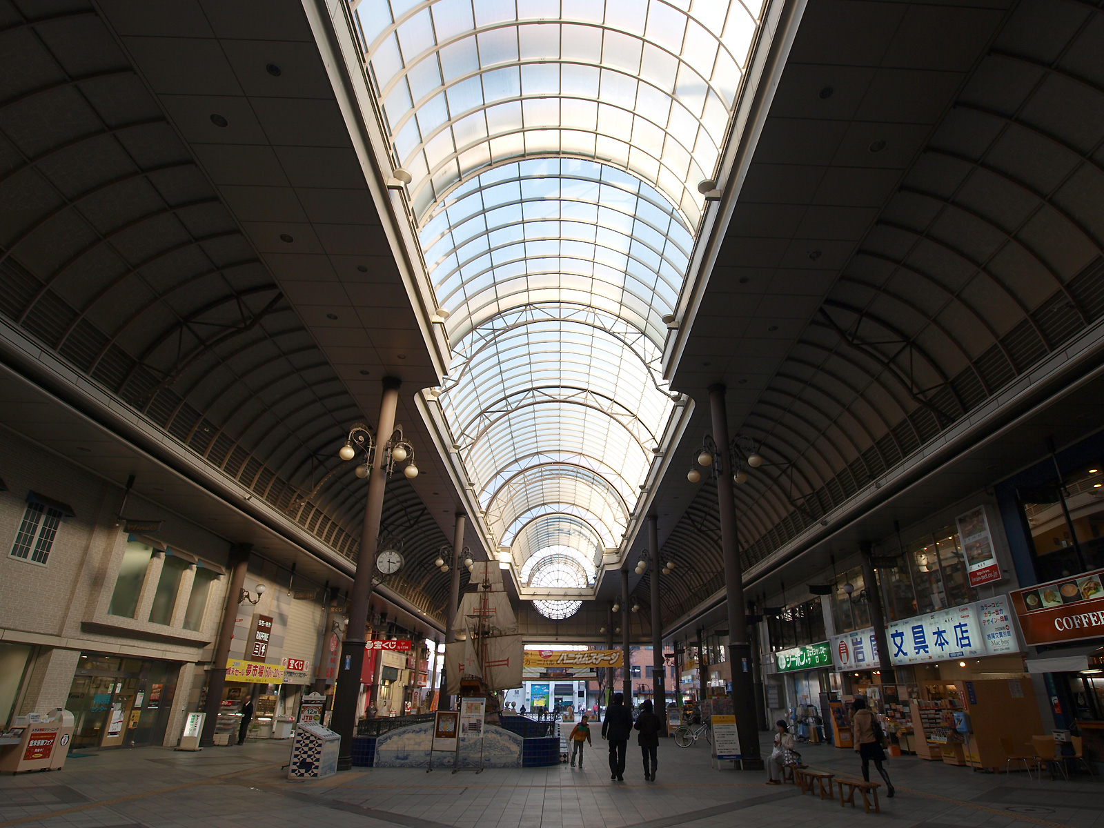 Galleria Takemachi, Shopping Mall in Oita City, Oita Pref., Japan